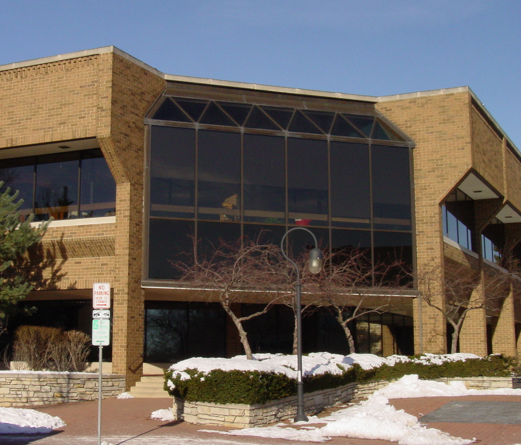 Exterior of the 1986 Nichols Library building, at the building's southeast corner (Jackson and Eagle Streets) in Naperville, Illinois, USA.